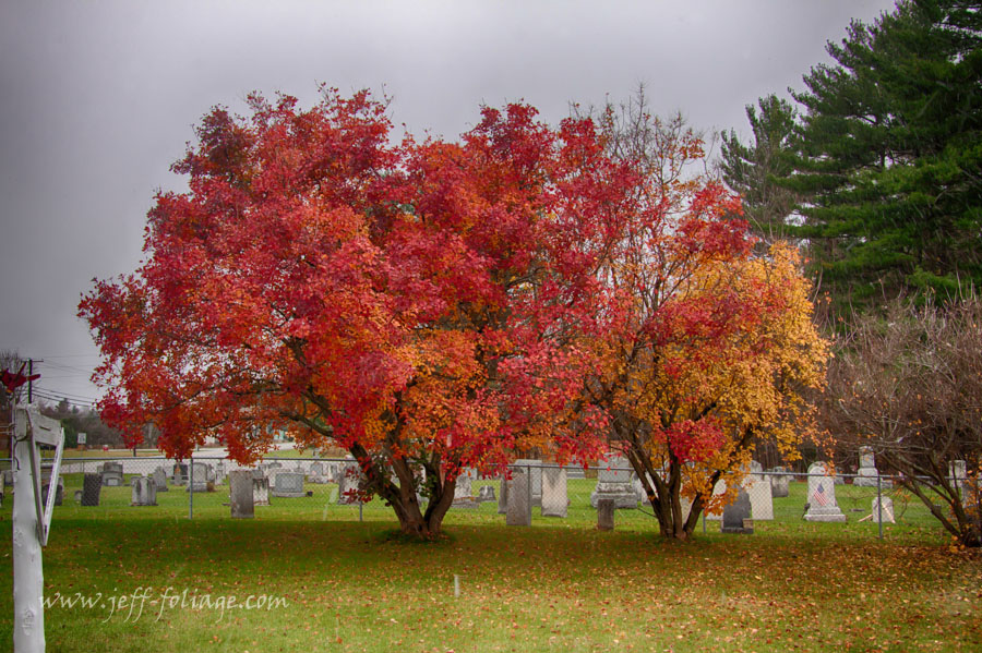 A smoke tree late in the fall foliage season showing red and orange colors